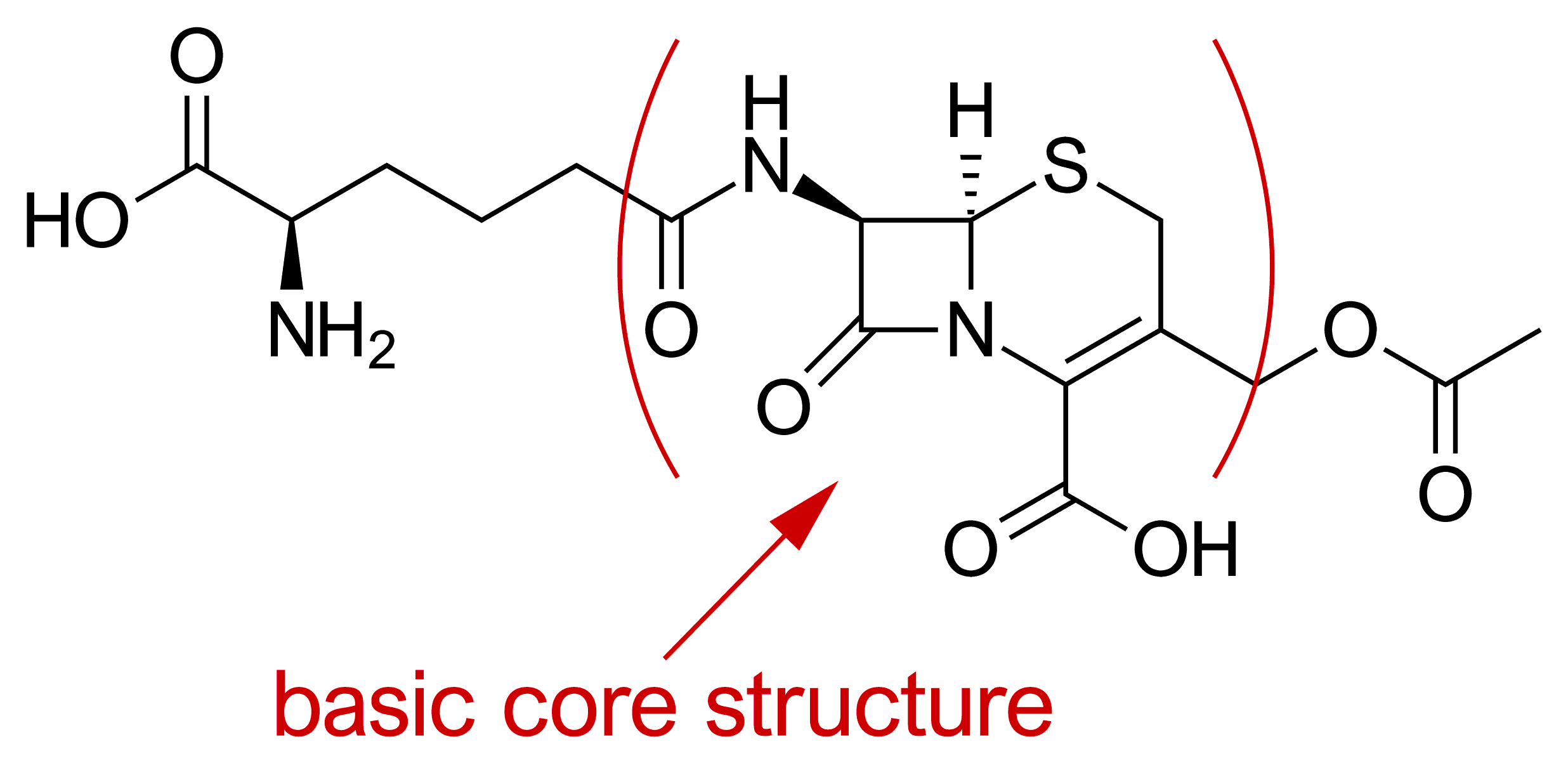 Cephalosporin Cxx